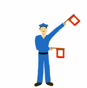 Letter W of the nautical semaphore flag signalling system Source: Martin Hawlisch (User:LosHawlos) My own drawing done in gimp First uploaded to de: in jun-2004